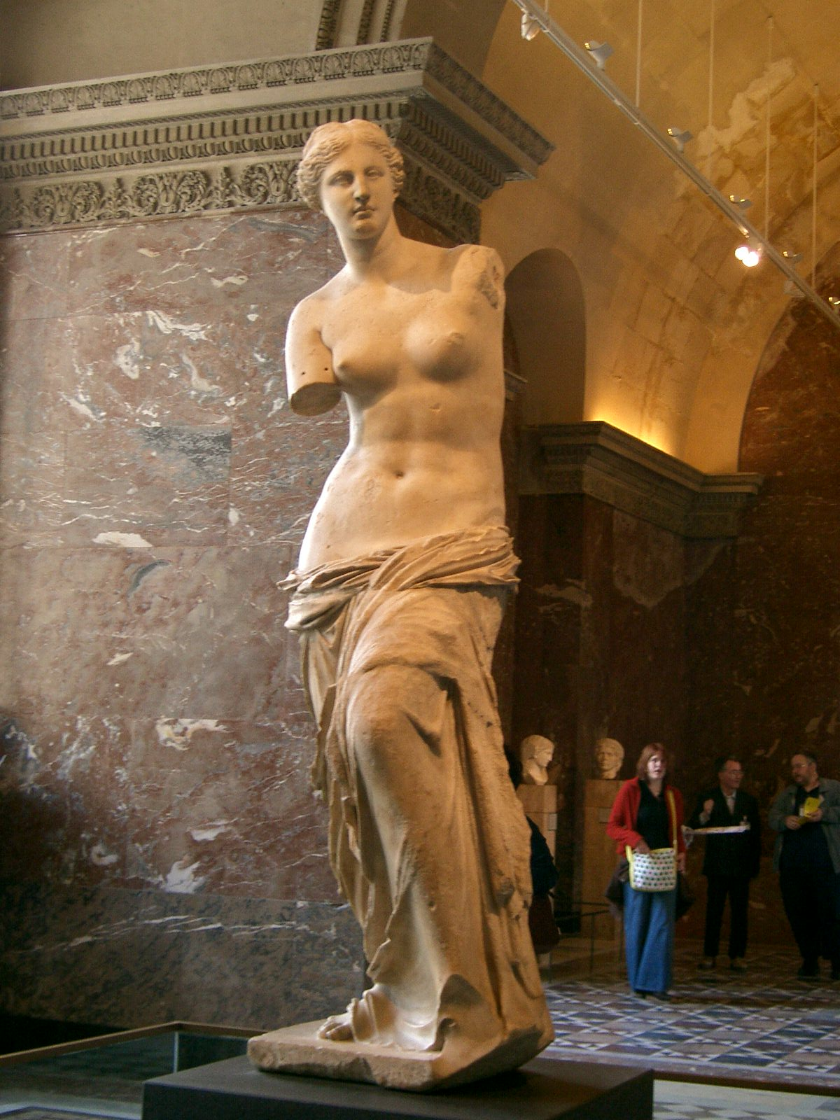 Venus de Milo in the Musee de Louvre